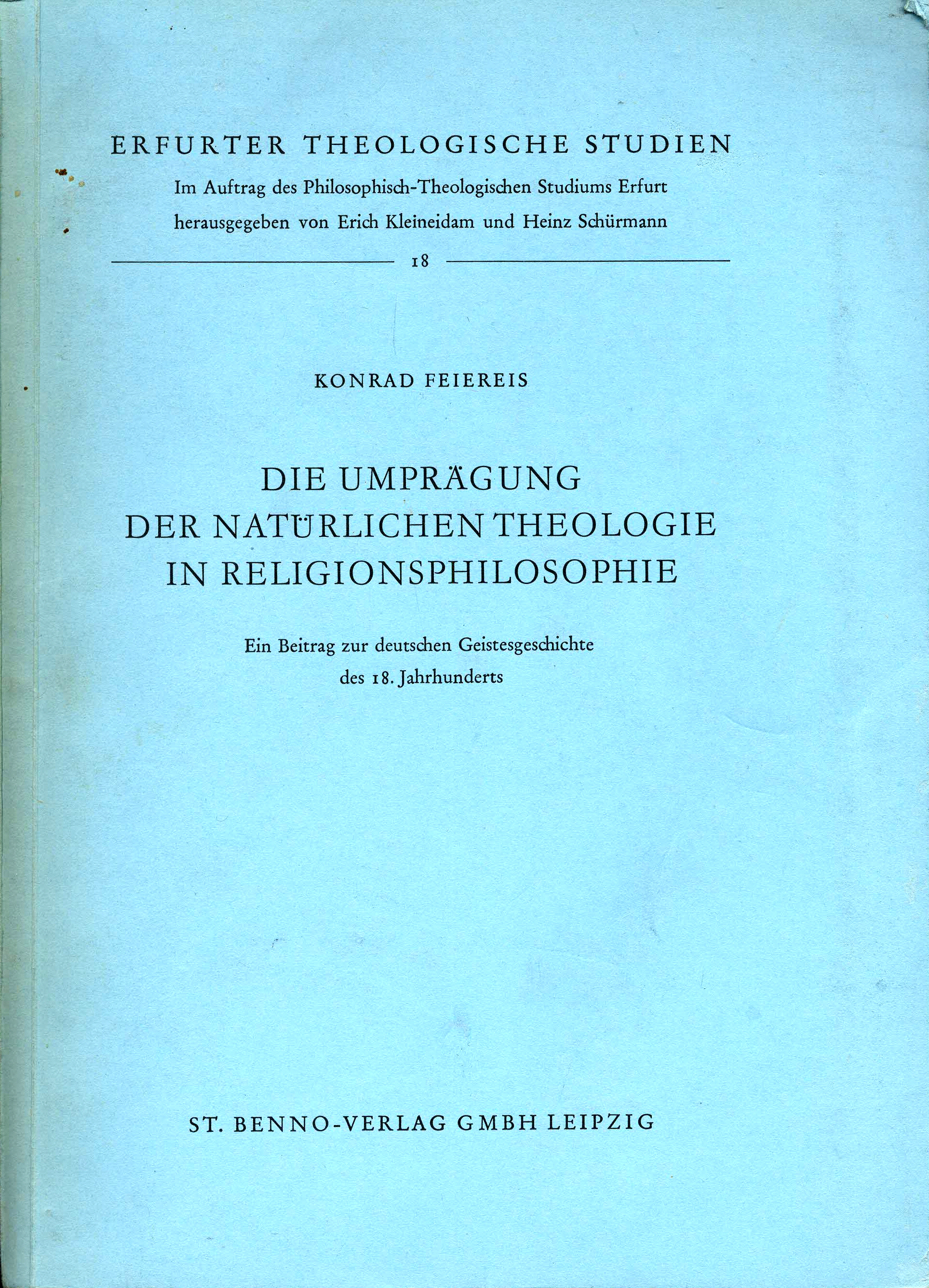 Cover of the 1965 thesis by Konrad Feiereis